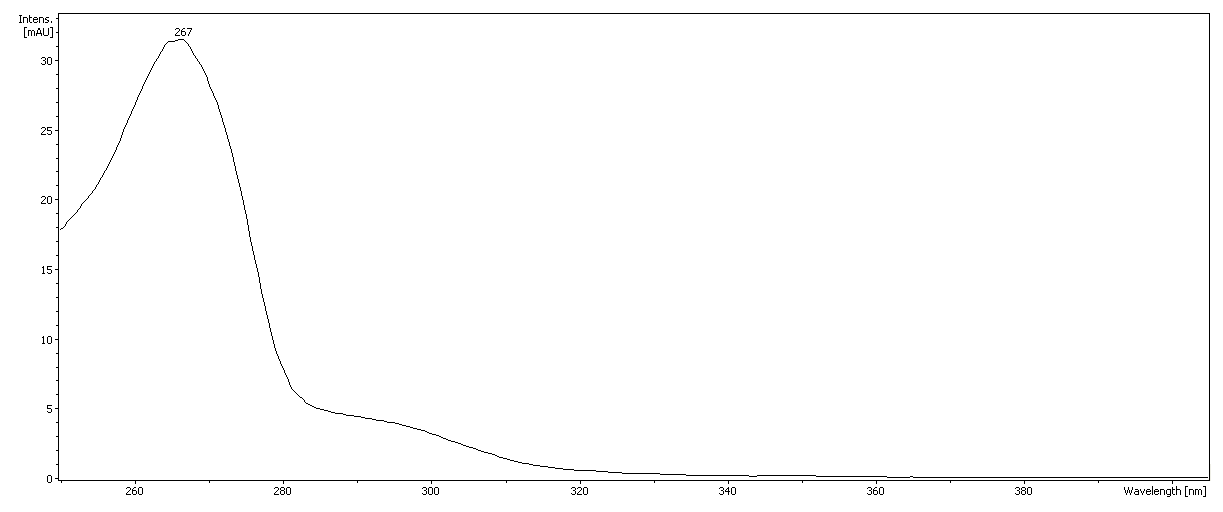 UV visible spectrum of phloroglucinol